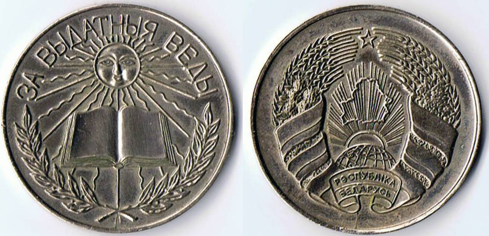 Silver medal of High shool 1999 year (Belarus).